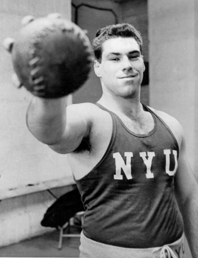 1962 New York University Gary Gubner Sets Shot Put World Record Press Photo